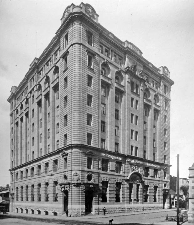 Family Services Building, George Street, Brisbane. (The original photograph caption makes reference to the Taxation Building. This building was previously known as the Queensland Government Savings Bank and the Queensland Government Insurance Building.)